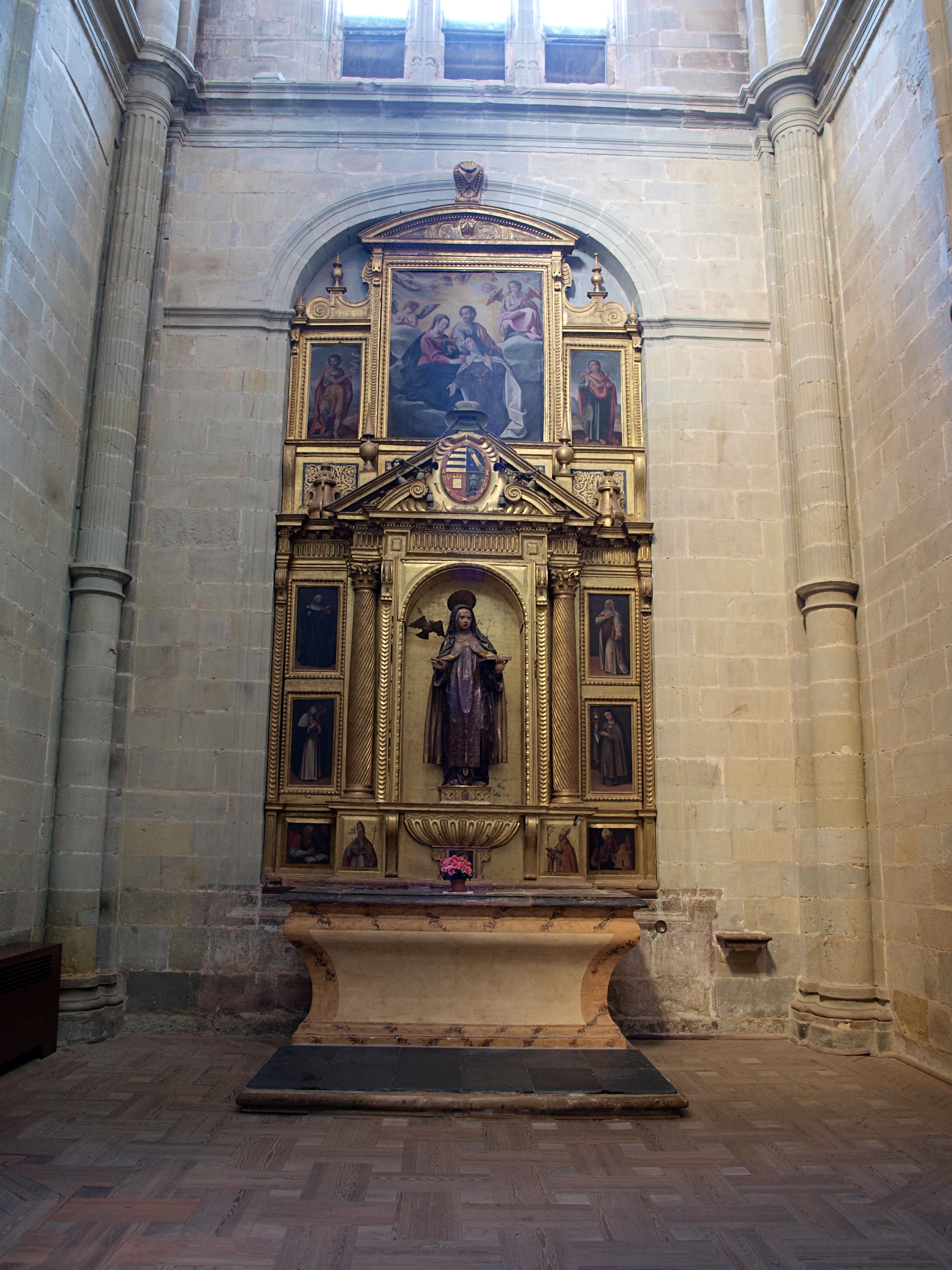 Astorga Cathedral, Astorga (Province of León, Spain).